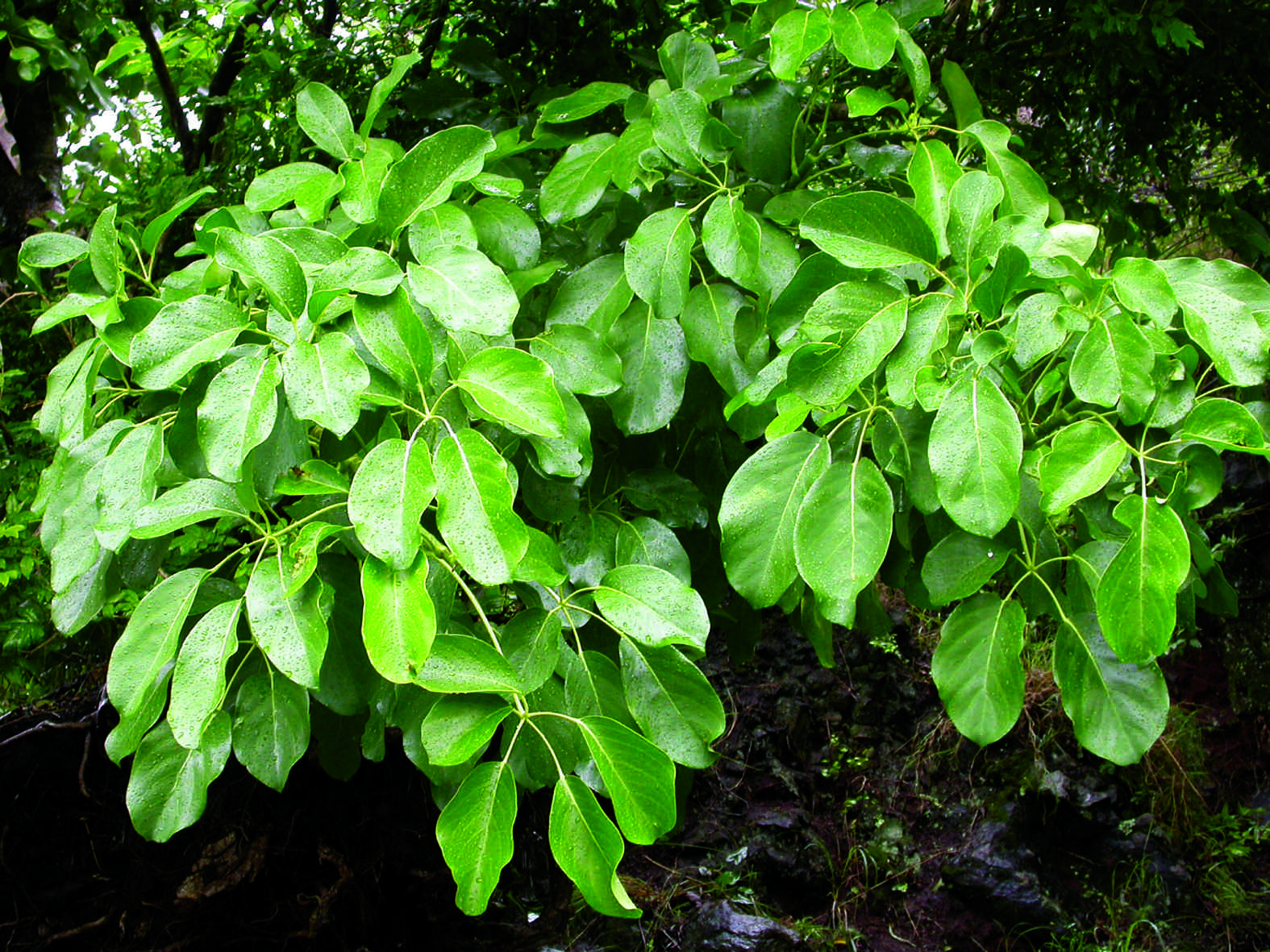 Schefflera stellata